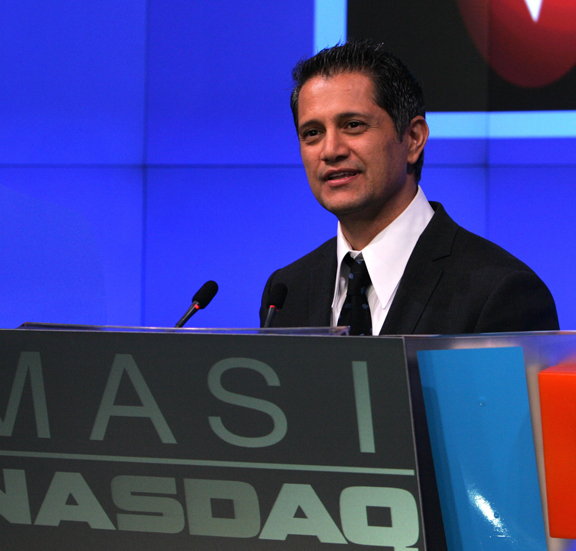 Joe Kiani, NASDAQ Opening